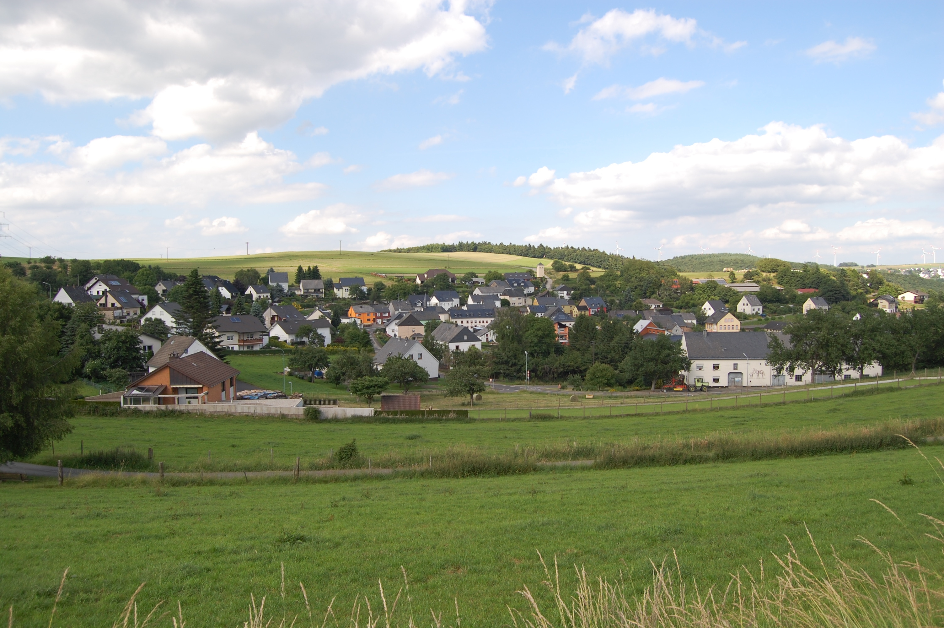 Village Herl in the Hunsrück landscape, Germany.